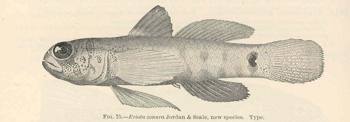 Eviota zonura Jordan & Seale, new species. Type Subject: Eviota Tag: Fish